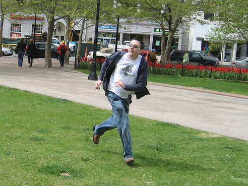 Gregg Housh playing frisbee at the Boston "Operation Fair Game Stop" protest by .